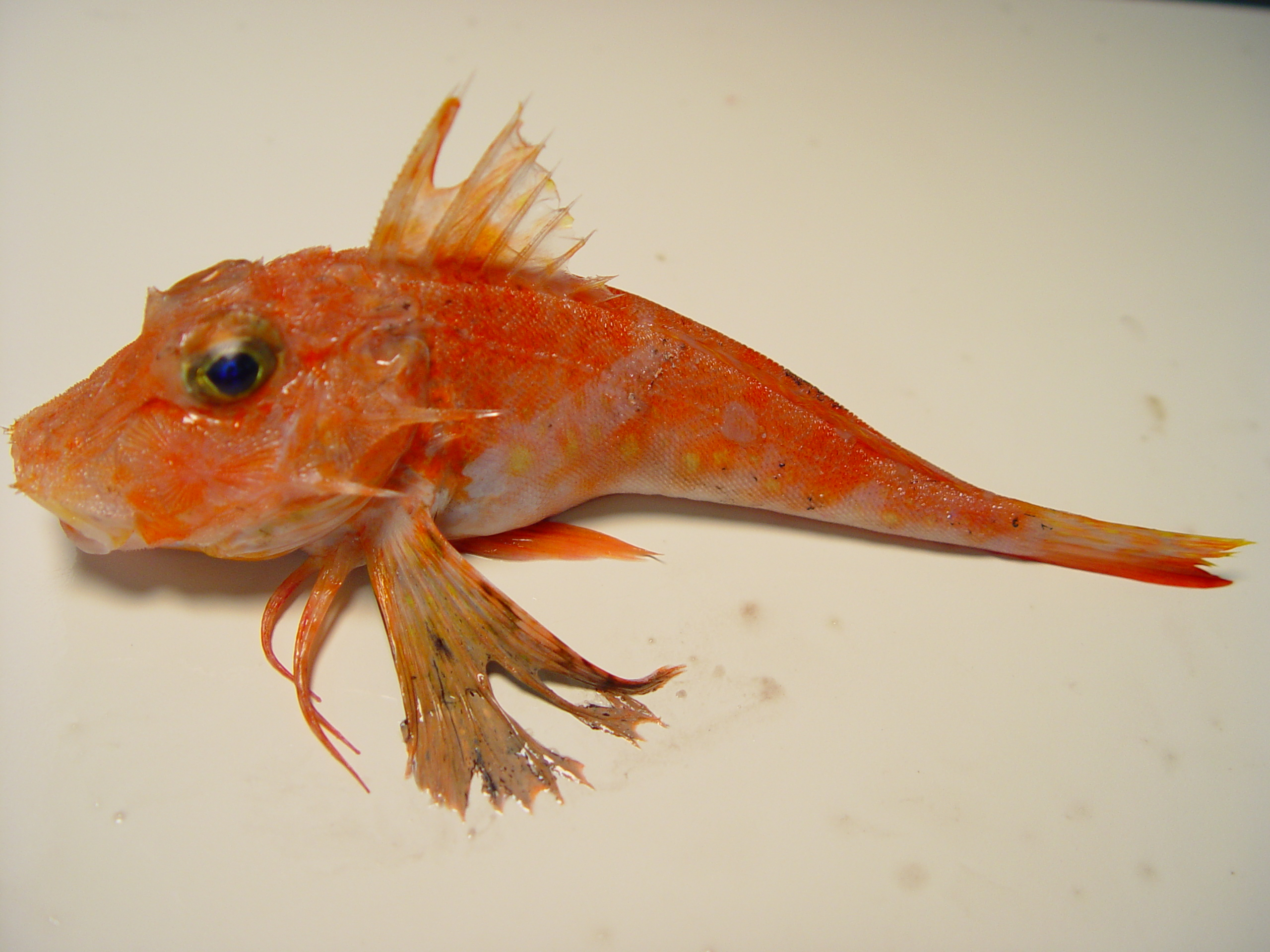 Streamer searobin ( Bellator egretta ). Gulf of Mexico.